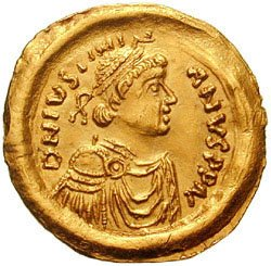 Tremissis with the image of Justinian the Great (r. 527–565).